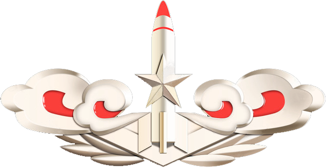 Emblem of People's Liberation Army Rocket Force 中国人民解放军火箭军标志